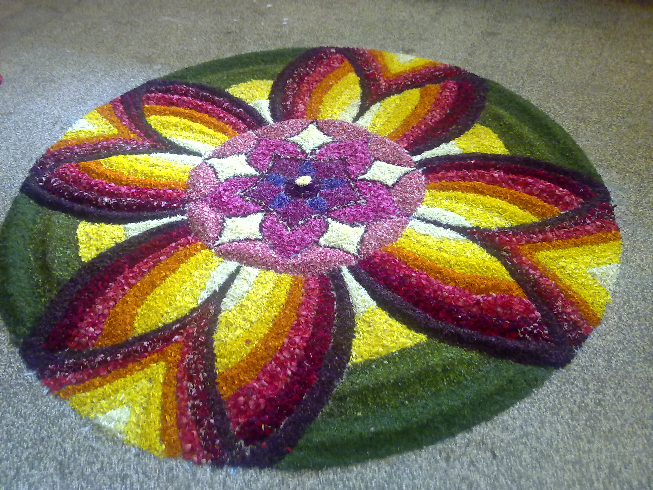 A flower carpet laid for Onam festival at Government Medical College, Kozhikode